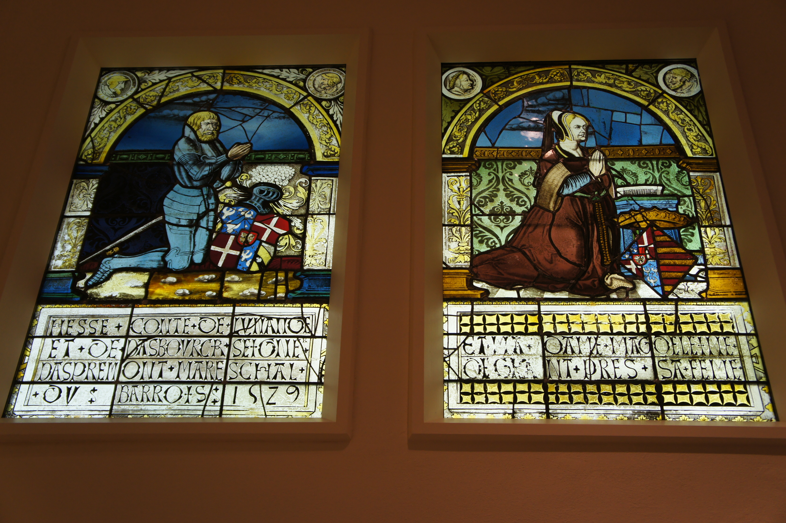 Hesse de Linange as Donor; Madeleine de Grandpré as Donor; Colored, stained, and enameled glass; Lorraine, 1529; Hesse de Linange commissioned the panels and their counterparts (Françoise d'Anglure & Gérard de Haraucourt), displaying his relatives and their patron saints, for the chapel of the church of the Franciscan convent of the Sœurs Grises in Ormes-et-Ville, Lorraine; Bequest of George Blumenthal, 1941; 41.190.449,.450